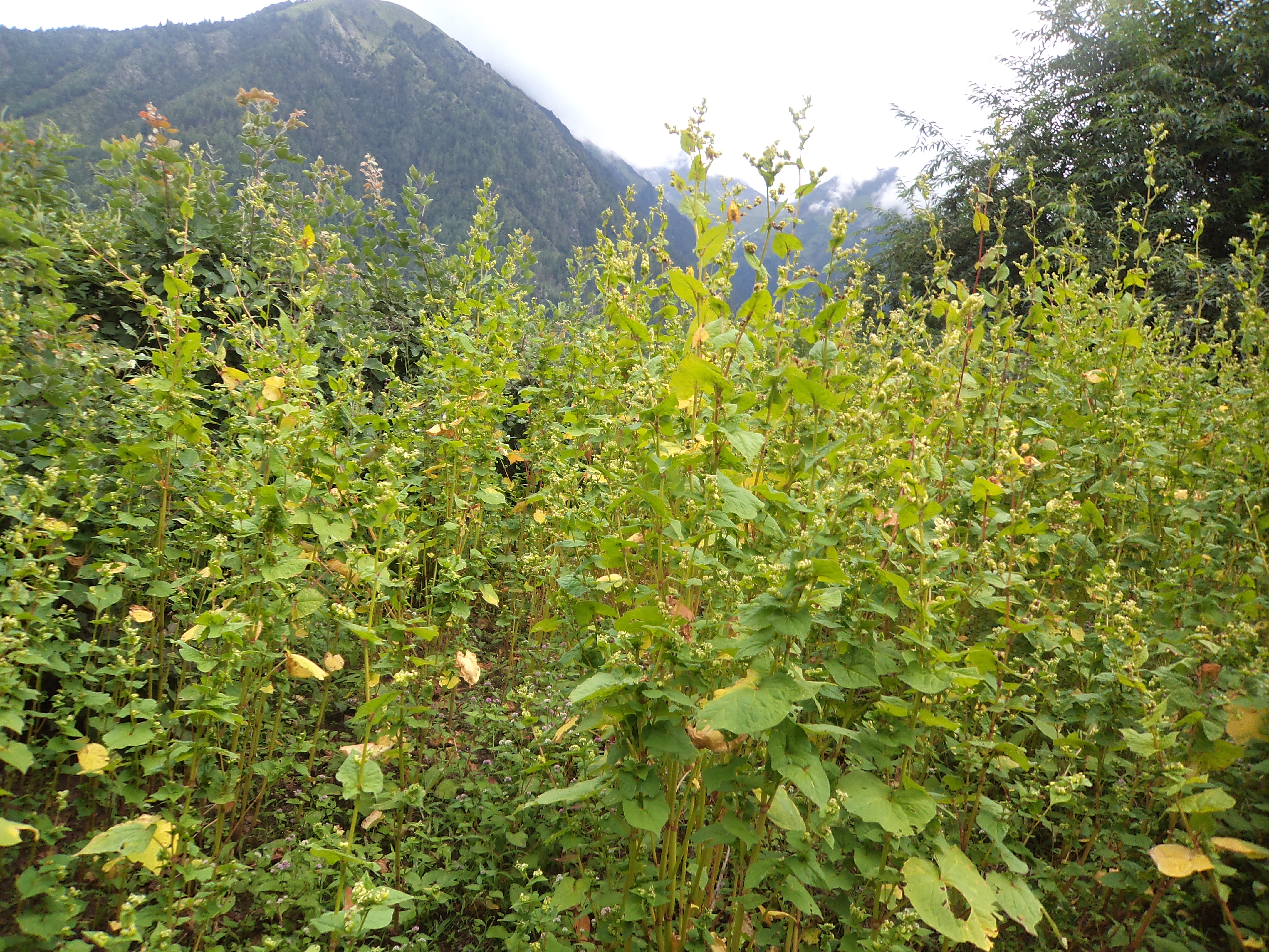 फापर ( a type of sides)